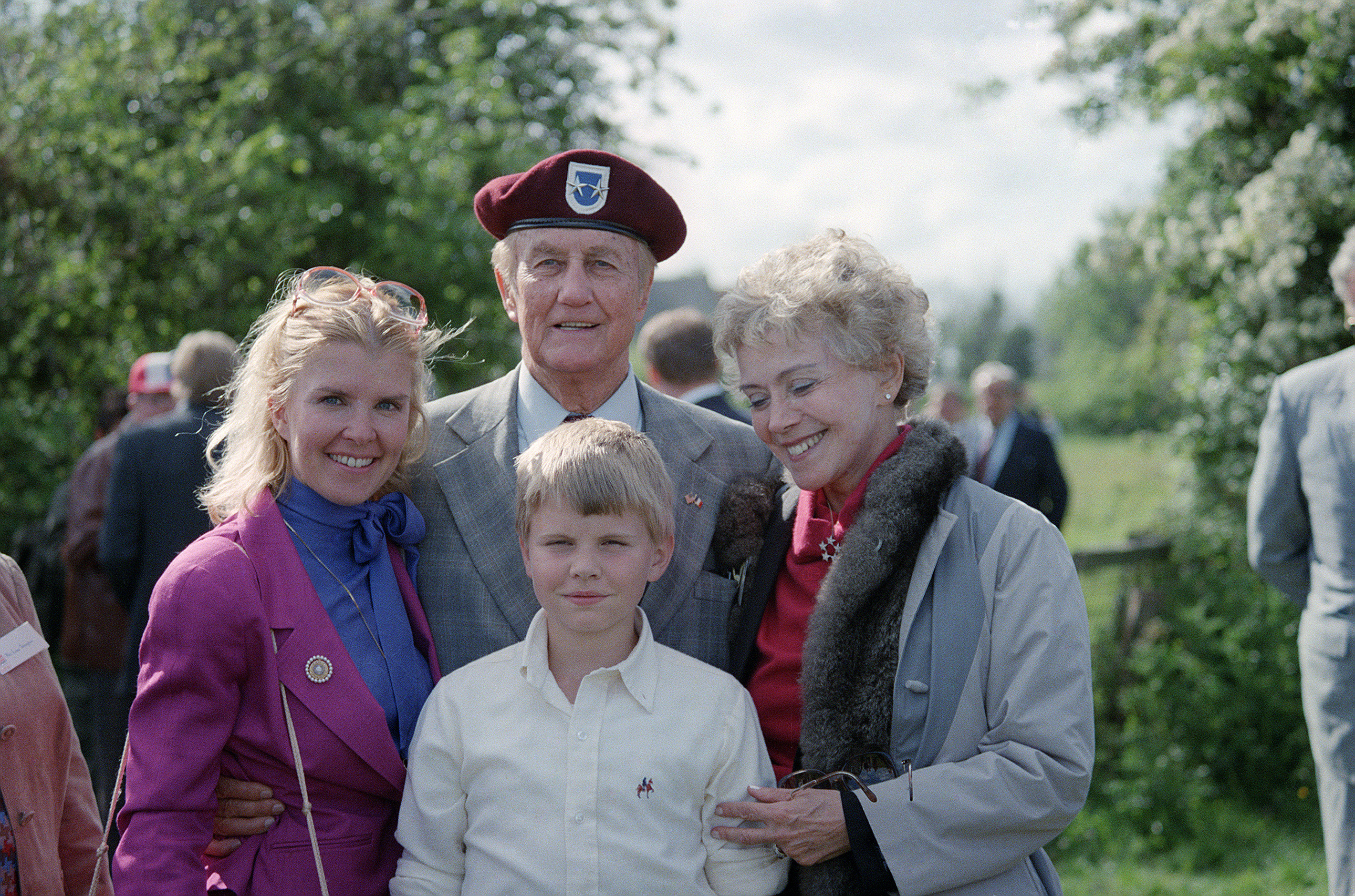 Senator and Mrs. Strom Thurmond, Republican, South Carolina, Strom Thurmond Jr. and Mrs. Omar Bradley pose for a photograph during a ceremony commemorating the 40th anniversary of D-day, the invasion of Europe, 6/2/1984.